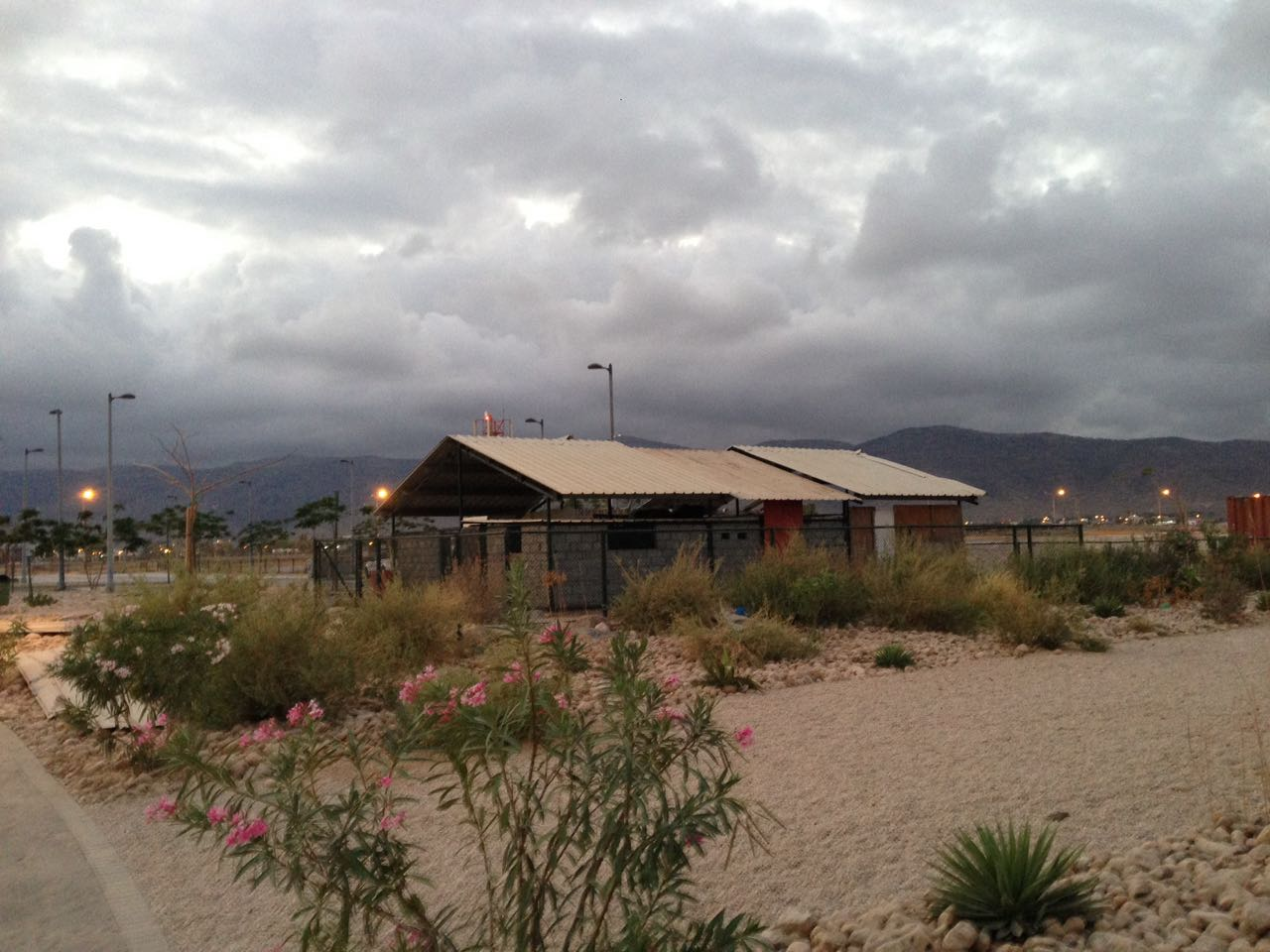 كوخ في حديقة أتين